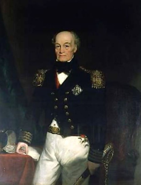 "Portrait of Sir Thomas Byam Martin 1773-1854" oil on Canvas.